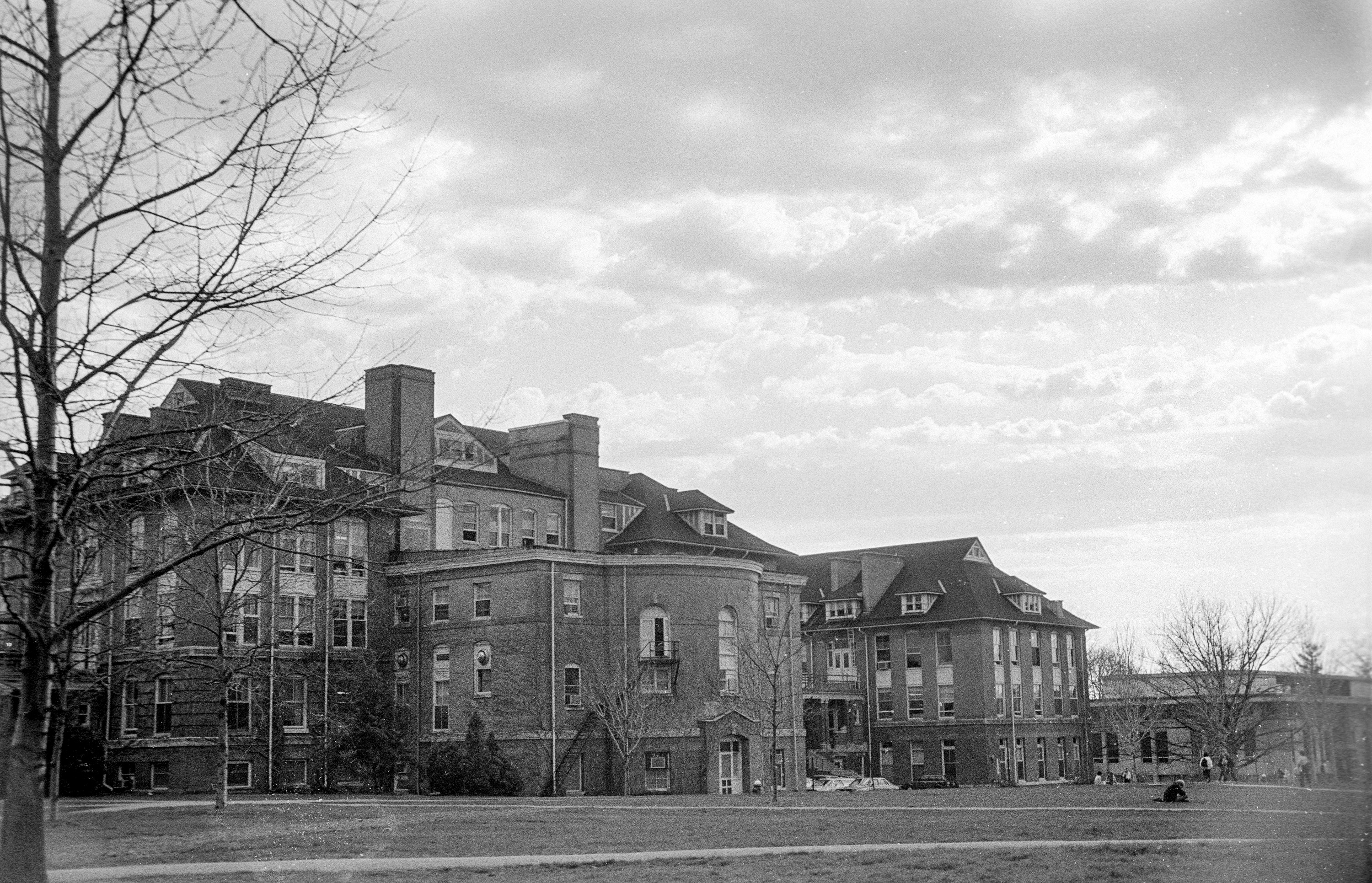 Rear of Roberts Hall and Stone Hall, Cornell University, before demolition. Taken late 1985 or early 1986.